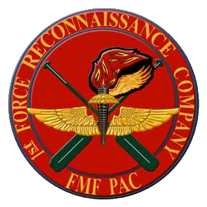 The seal of 1st Force Reconnaissance Company during the 1960s. Captioned As {}